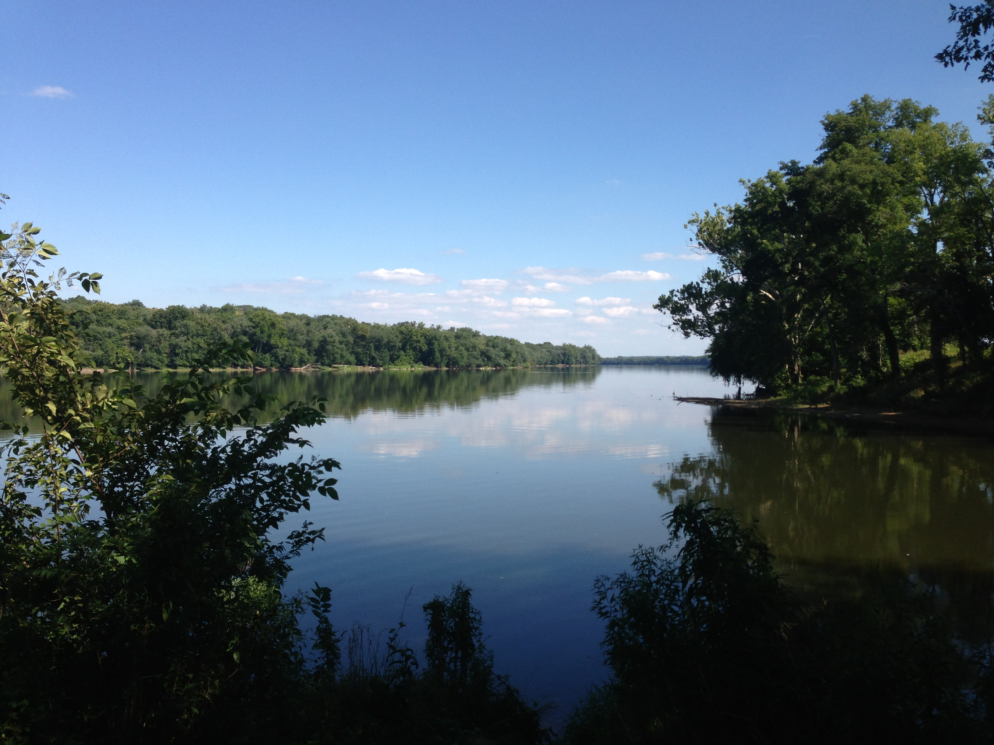 Potomac River at Goose Creek taken 7-26-2013